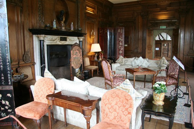 Thorpe Hall Drawing Room The principal drawing room in Leeds Castle since 1822, the pine panelling and chimneypiece came from Thorpe Hall near Peterborough in 1927.